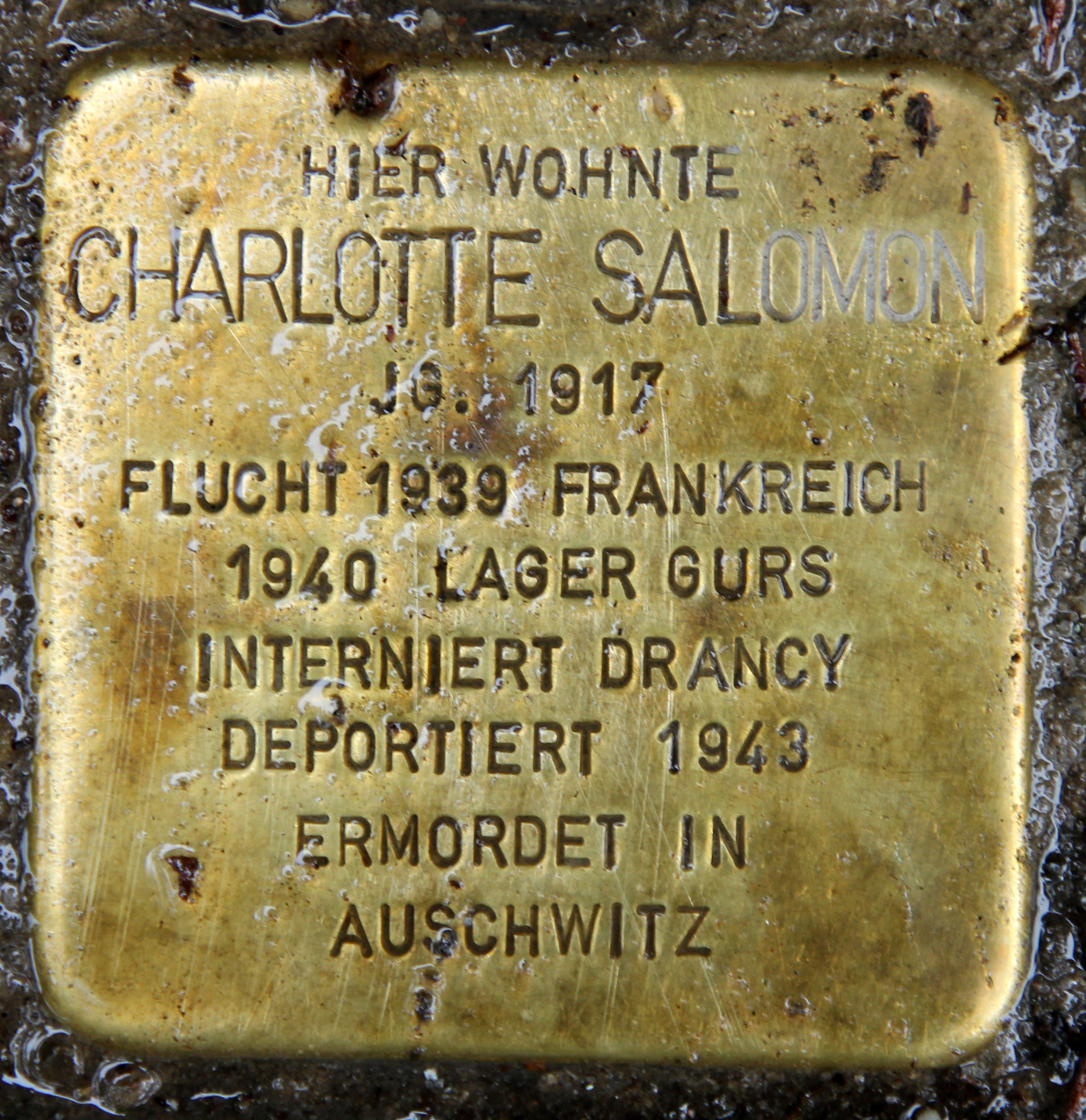 "Stolperstein" (stumbling block), Charlotte Salomon, Wielandstraße 15, Berlin-Charlottenburg, Germany